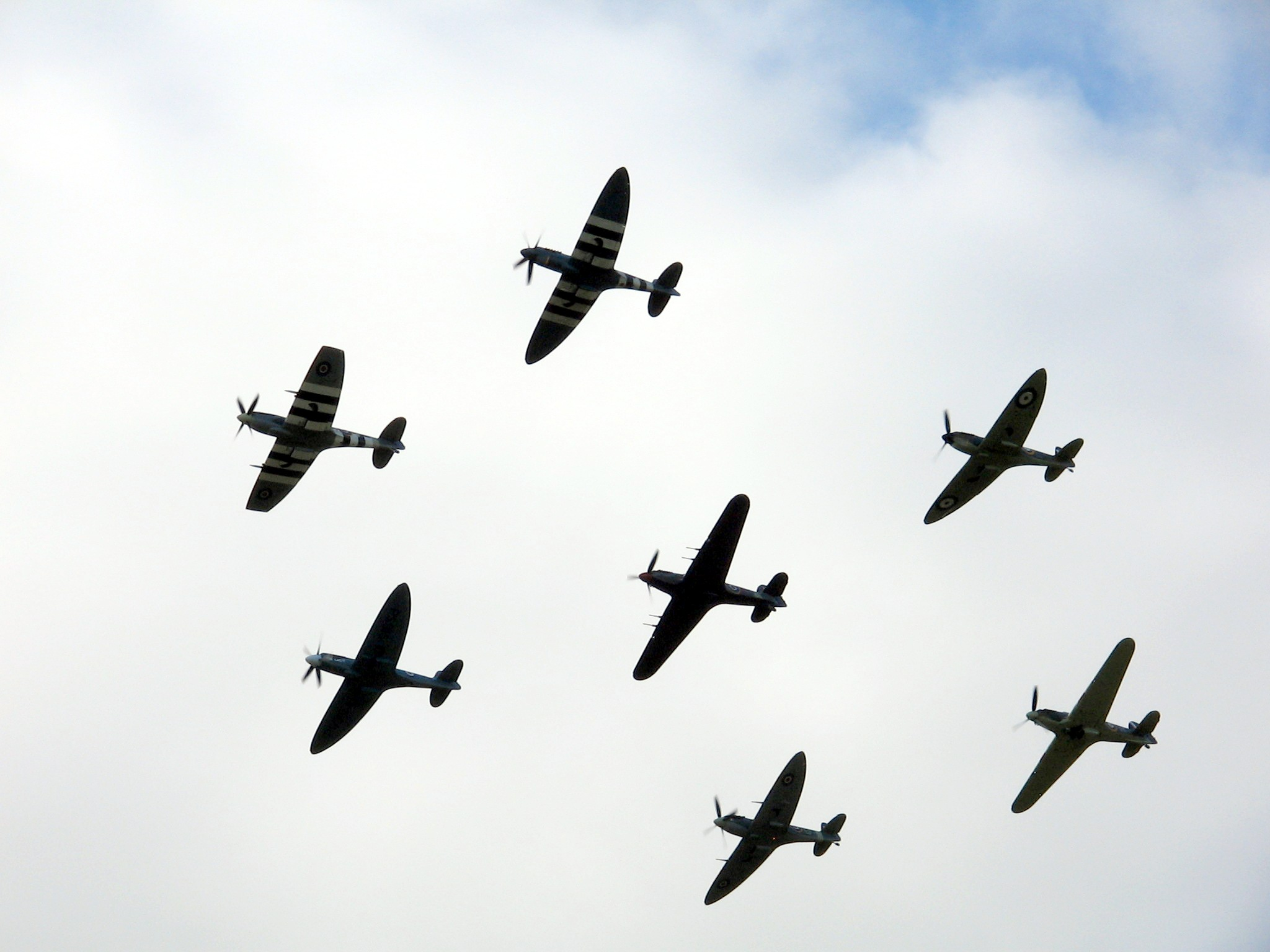 2 Hawker Hurricanes and 5 Supermarine Spitfires of the Battle of Britain Memorial Flight at Duxford airshow, May 2007